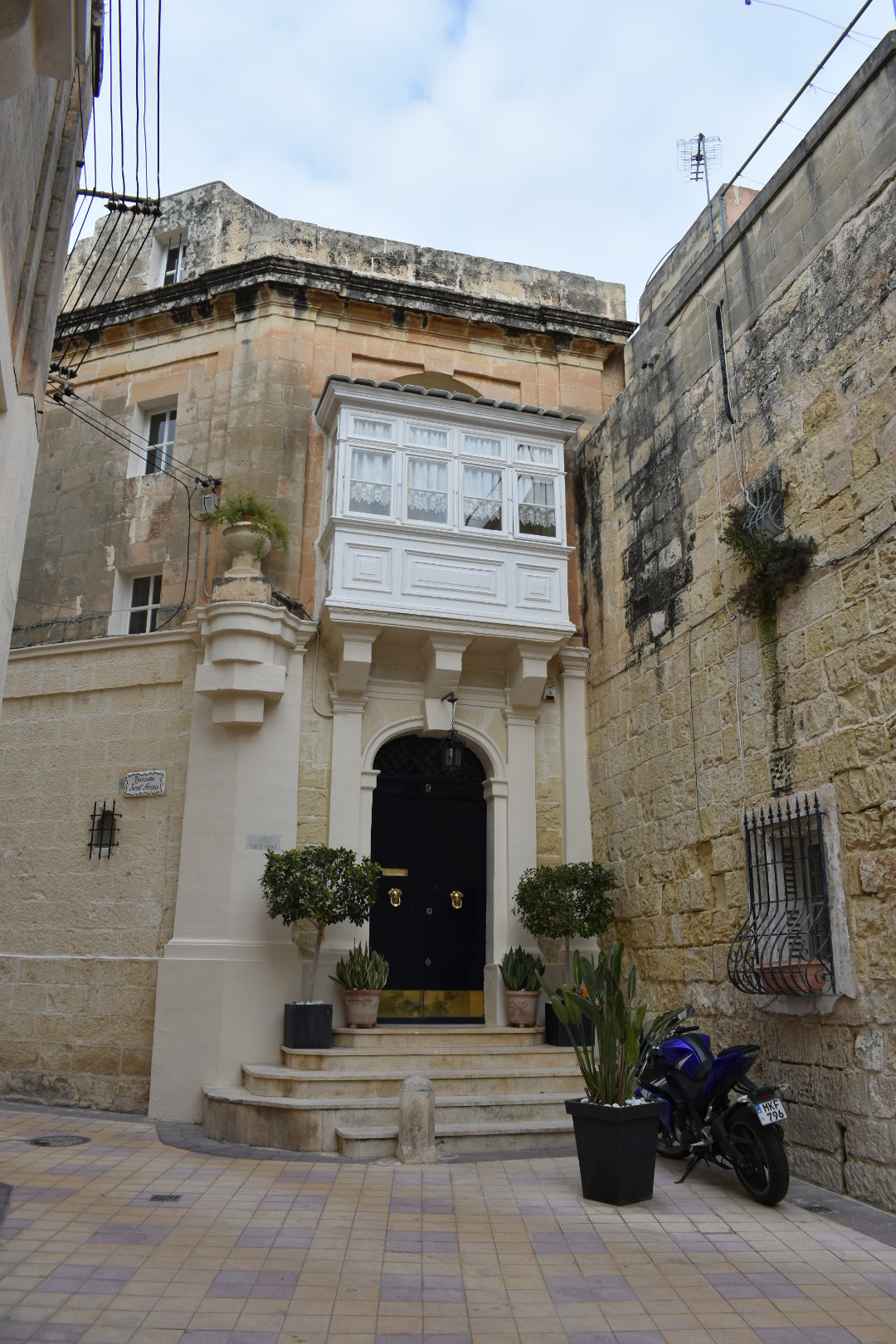 Traditional homes in Attard